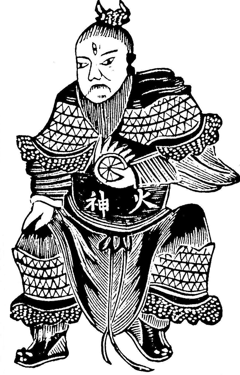 Suiren, the fire driller, brought fire to humankind according to Chinese mythology